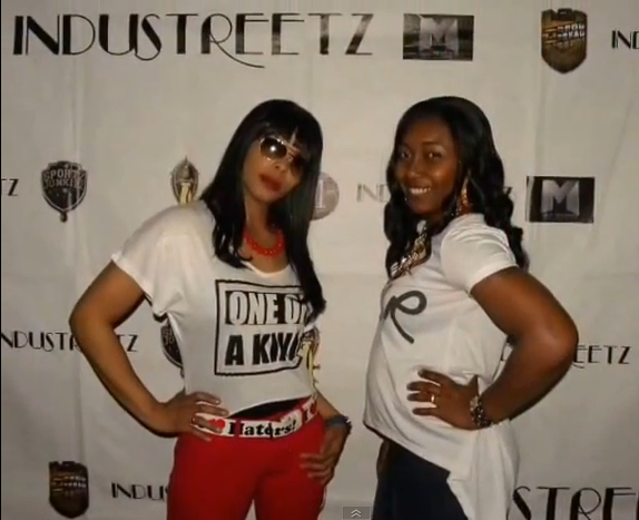 Chastain Stone with Radio Personality Shai